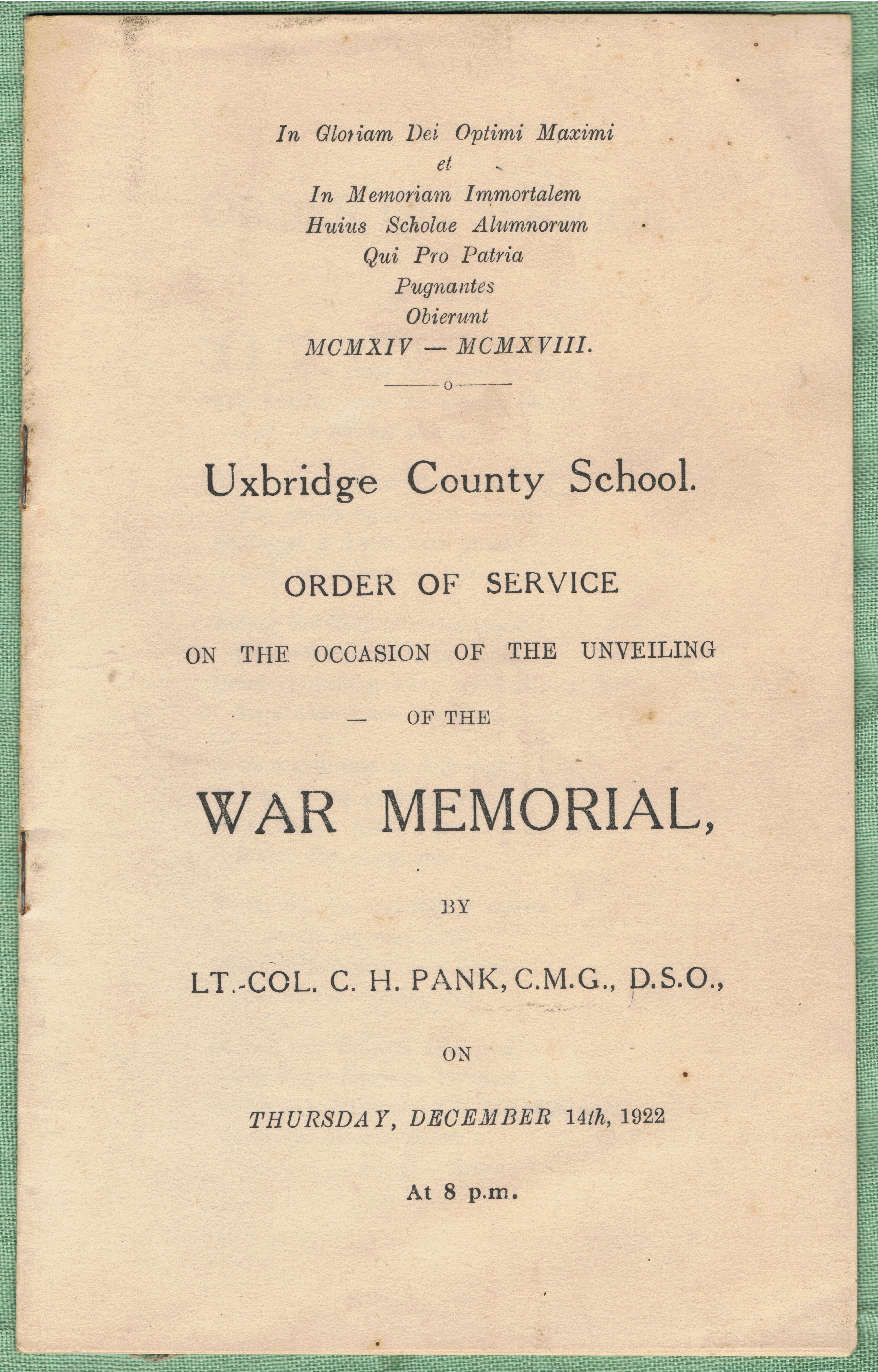 Scan (by me, R. de Salis, Rodolph (talk) 01:23, 13 December 2014 (UTC)) of Uxbridge County School's War Memorial unveiling's Order of Service, December 14th, 1922.